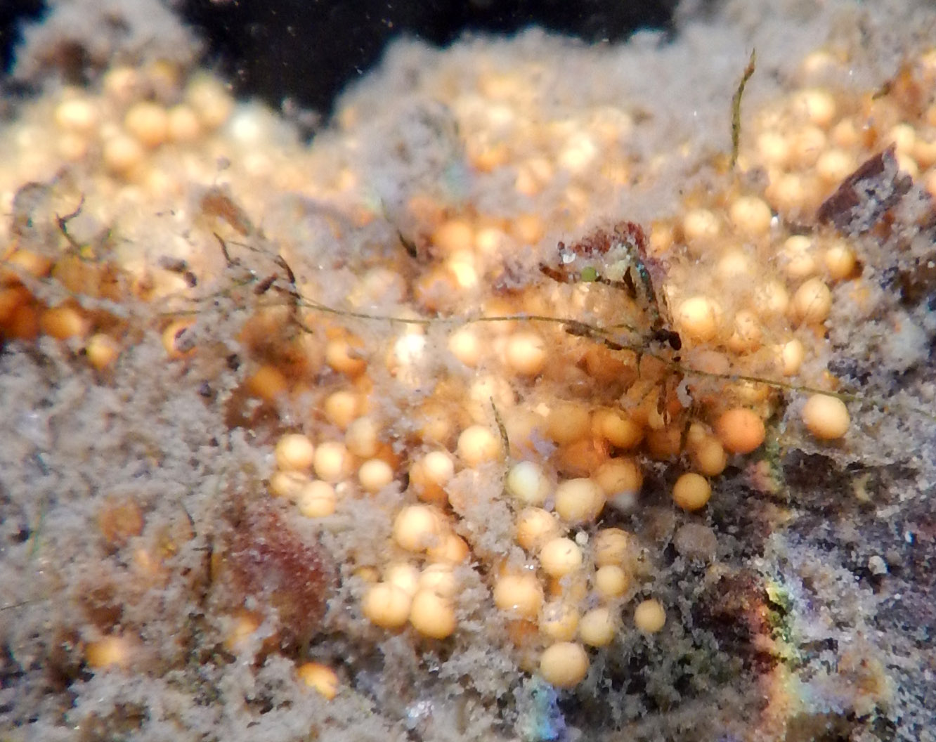 Gemmules of the freshwater sponge Spongilla lacustris (here in northern France) = resistant form of metabolic dormancy and appear in autumn.